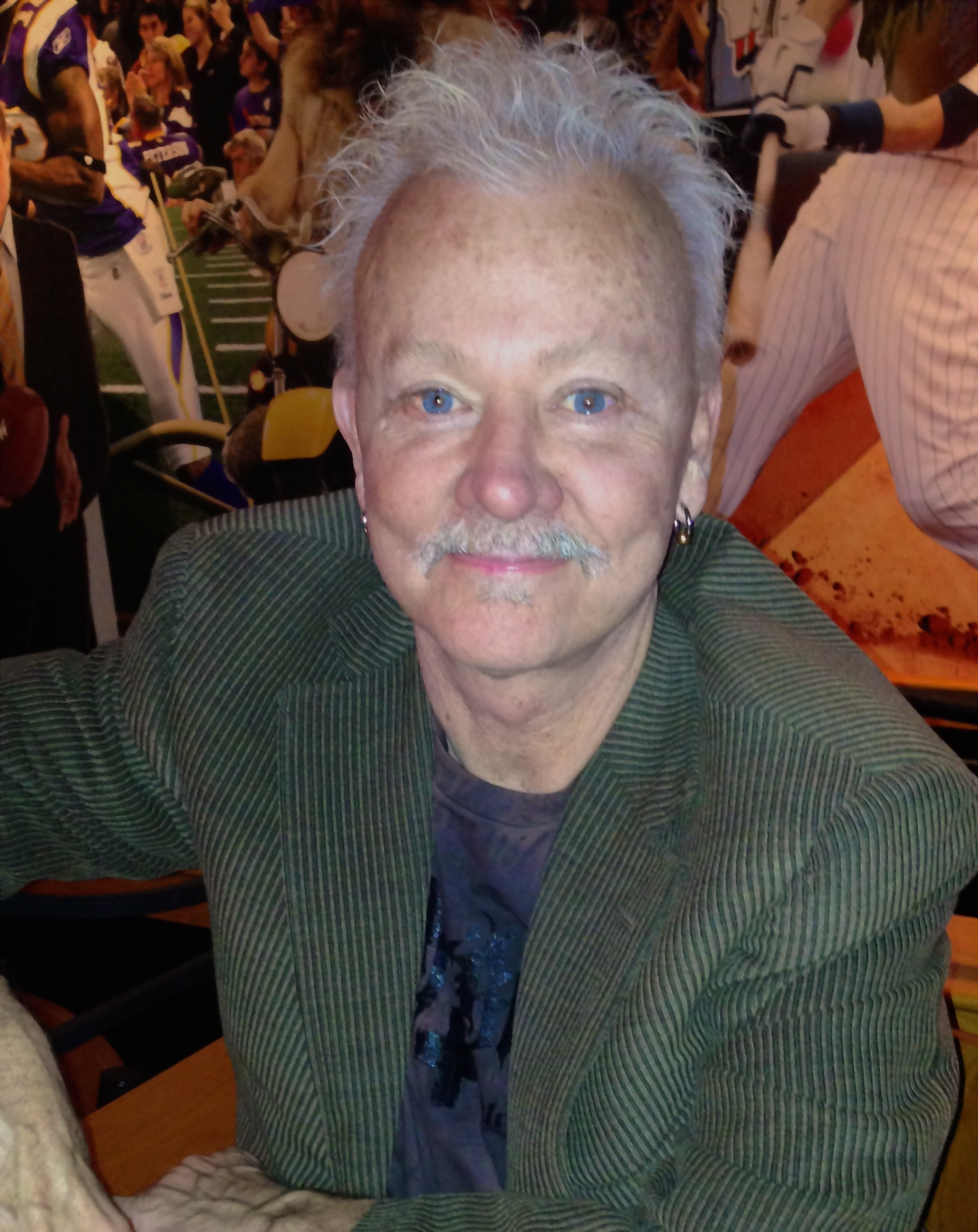 Neal Doughty in September 2013. Neal Doughty